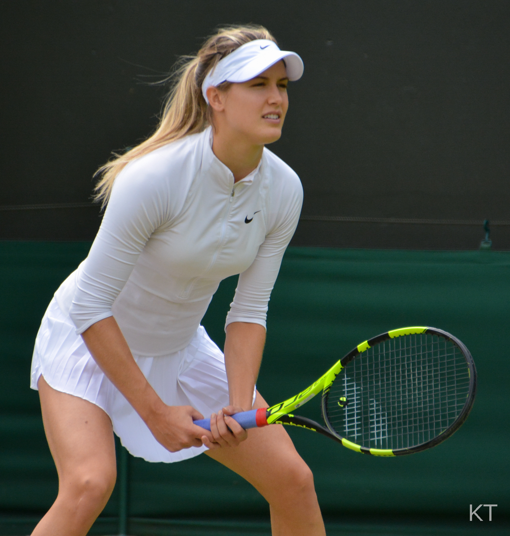 Middle Sunday of Wimbledon 2016.